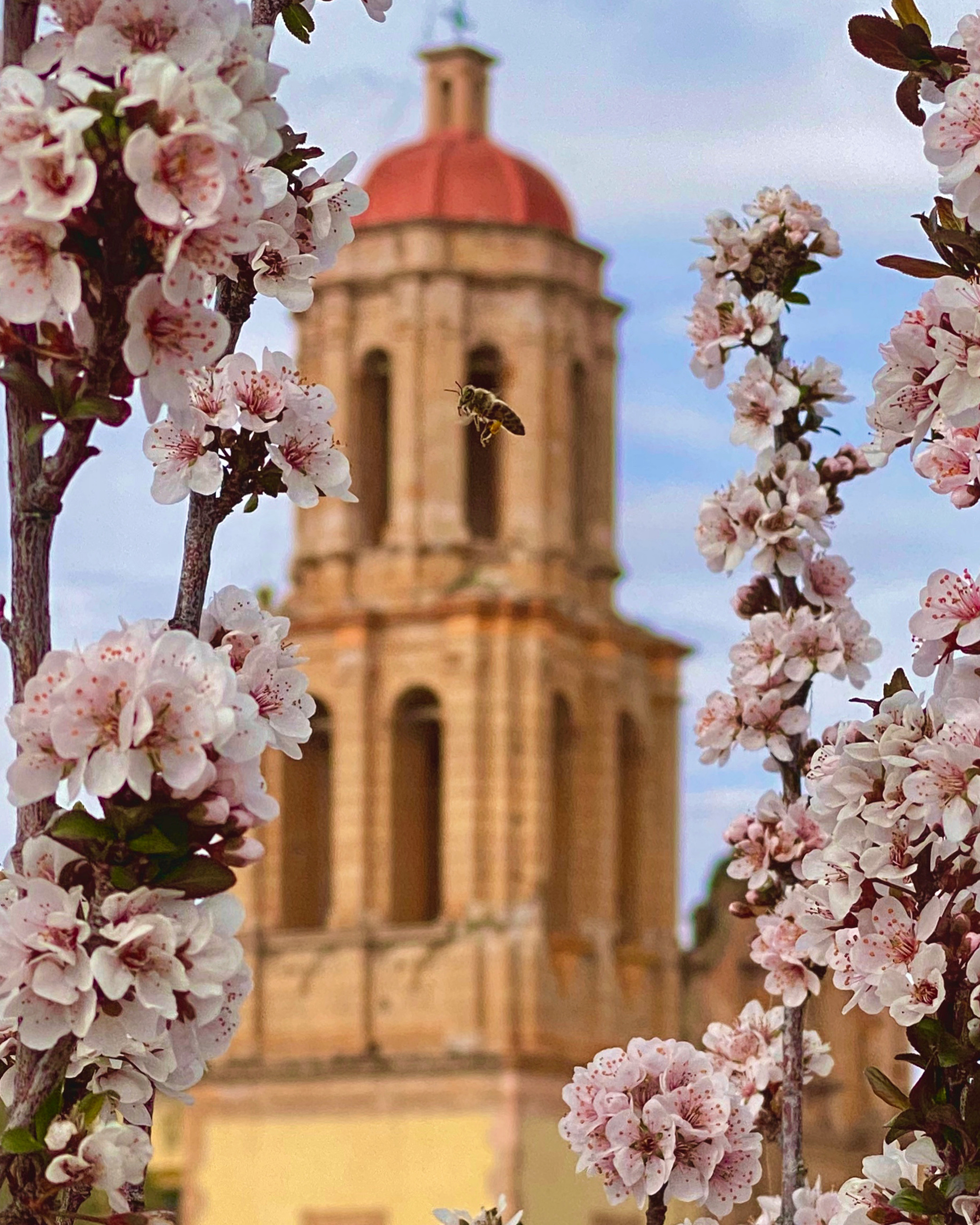 A plum tree being pollinated by a honey bee